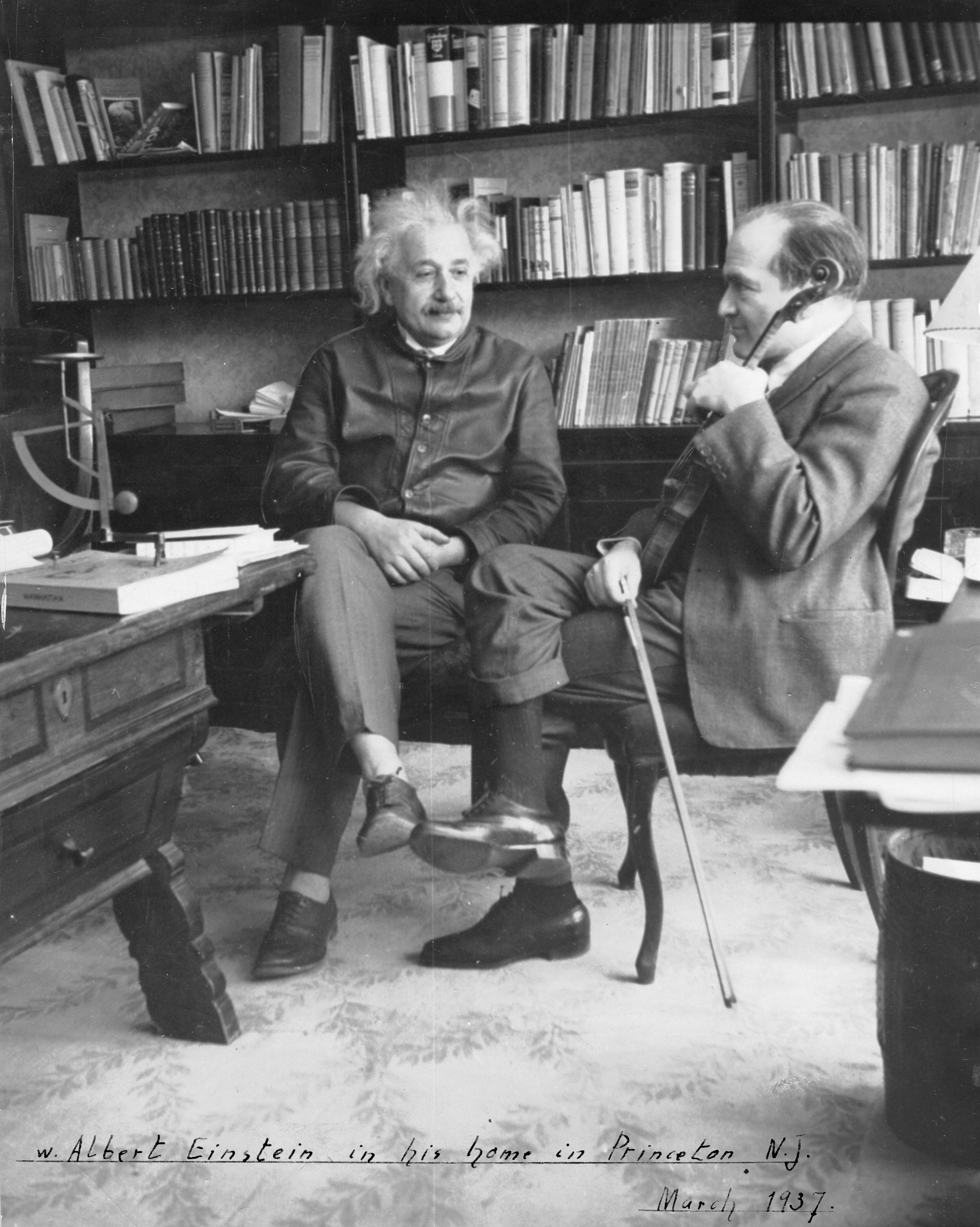 Albert Einstein in his N.J. apartment with violinist Bronislaw Huberman, March 1937. The B. Huberman Archive